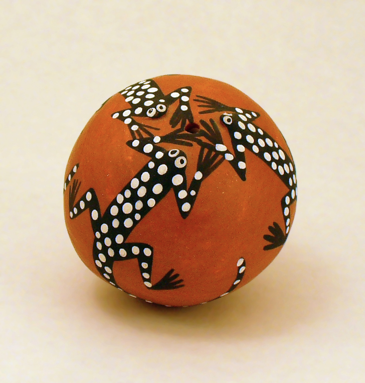 Seed pot from Acoma Pueblo. Photograph by me. On the bottom is written, "ACOMA INM" and "B.ARADON".